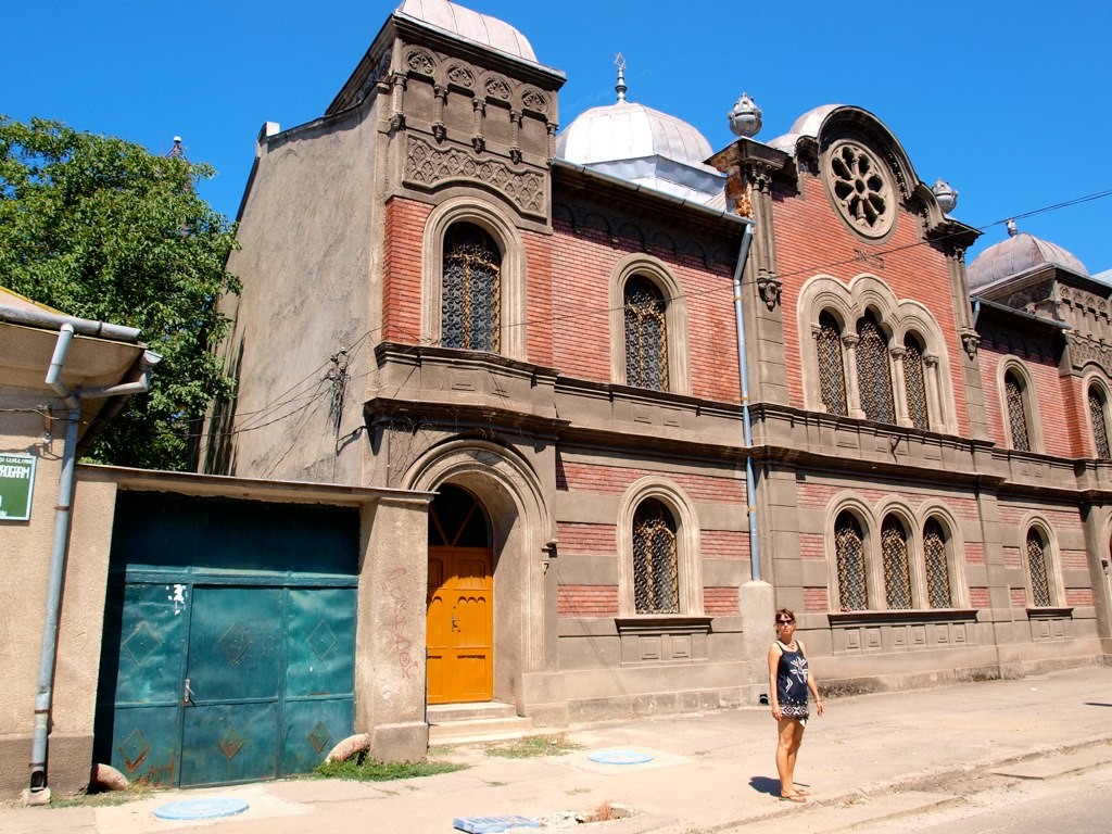 synagogue in Reșița/Reschitza. Built 1907-1910 [1]